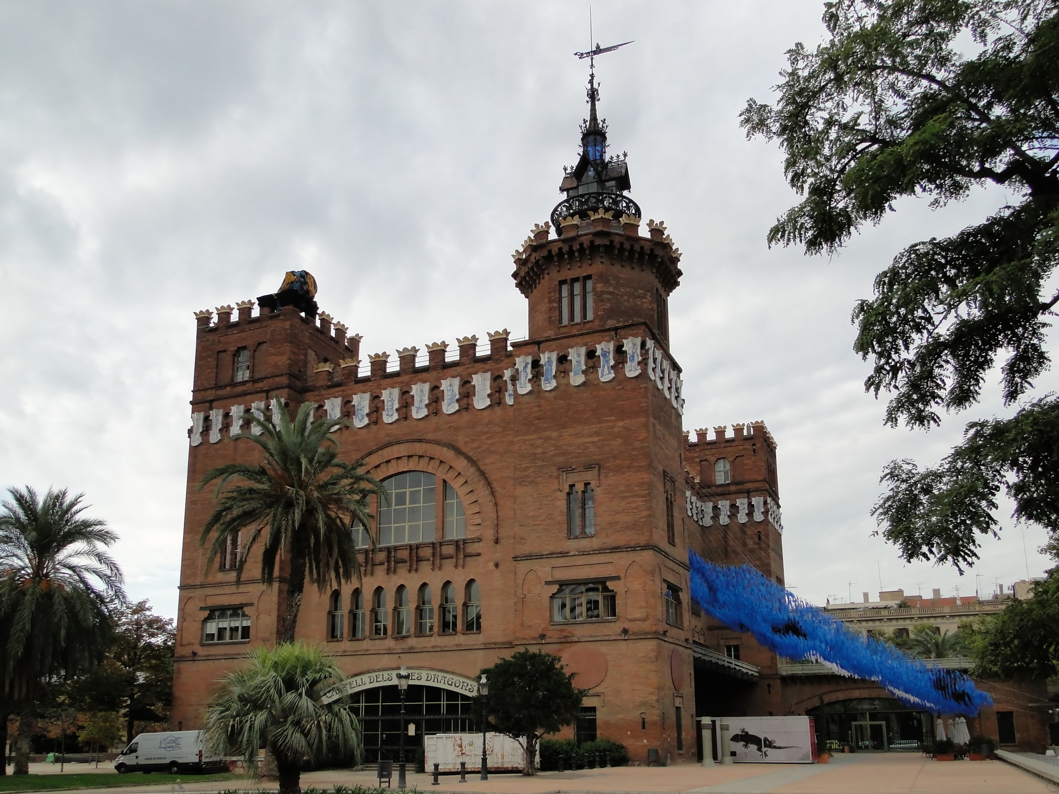 Castell dels Tres Dracs, Parc de la Ciutadella, Barcelona, Spain